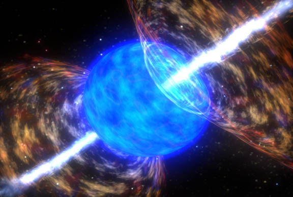 A computer animation of a gamma-ray burst destroying a star. This blue Wolf-Rayet star -- containing about 10 solar masses worth of helium, oxygen and heavier elements -- has depleted its nuclear fuel. This has triggered a Type Ic supernova / gamma-ray burst event. The core of the star has collapsed, without the star's outer part knowing. A black hole forms inside surrounded by a disk of accreting matter, and, within a few seconds, launched a jet of matter away from the black hole that ultimately made the gamma-ray burst. Here we see the jet (white plume) breaking through the outer shell of the star, about nine seconds after its creation. The jet of matter, in conjunction with vigorous winds of newly forged radioactive nickel-56 blowing off the disk inside, shatters the star within seconds. This shattering represents the supernova event.